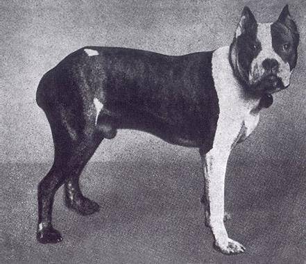 Flocky, the first boxer